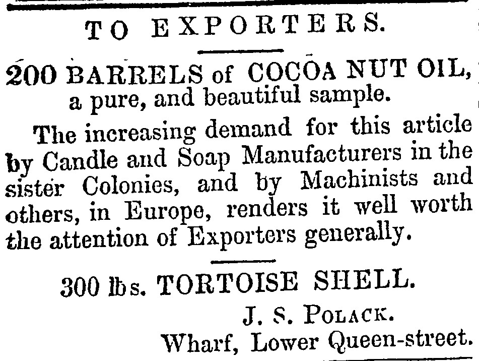 advertisement in Wellington New Zealand newspaper